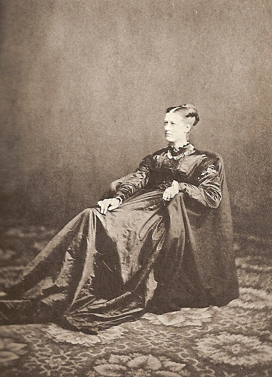 Jane Maria Lady Strachey, mother of Lytton Strachey, Oliver Strachey, Dorothy Bussy and James Strachey among others.